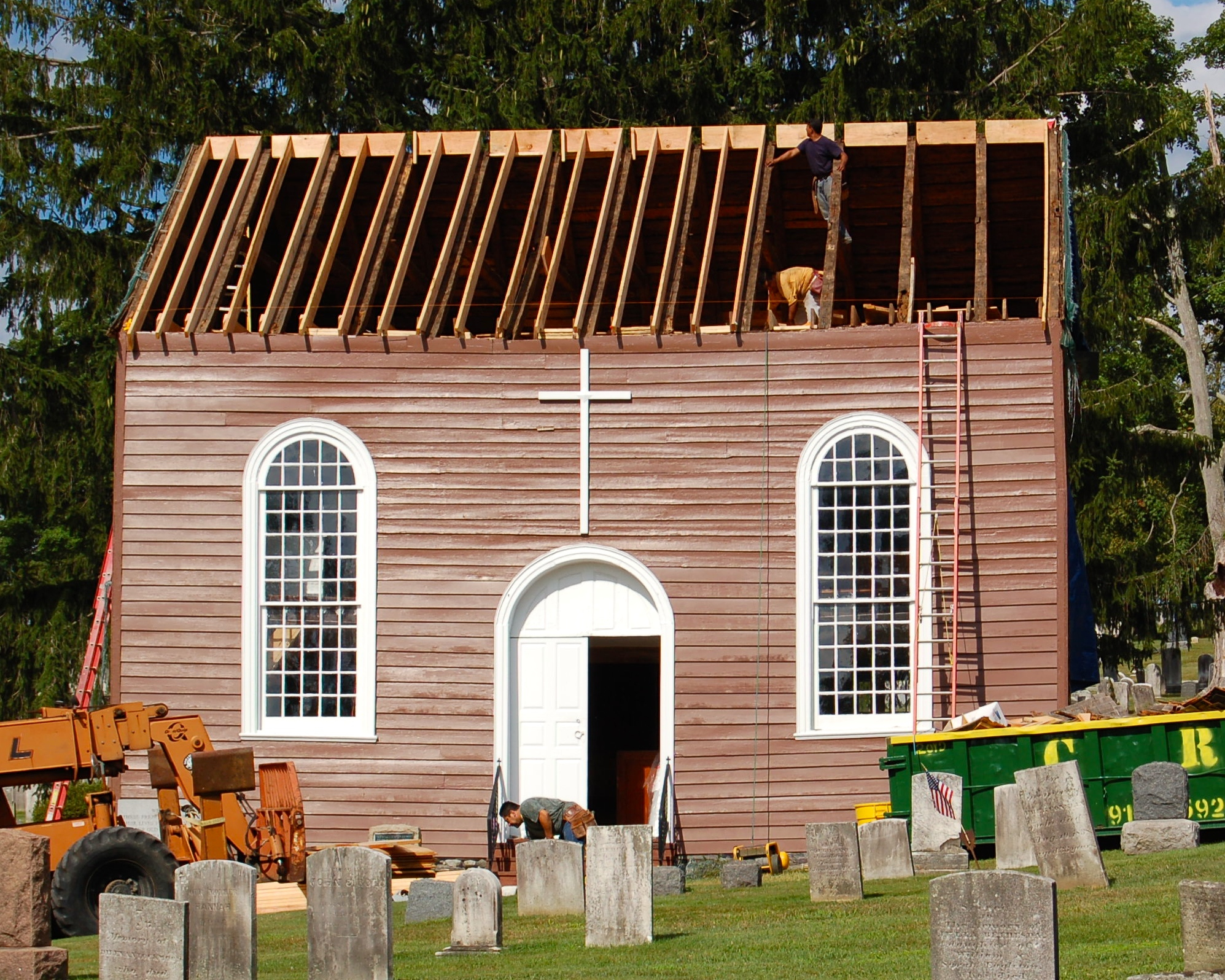 Old St. Peter